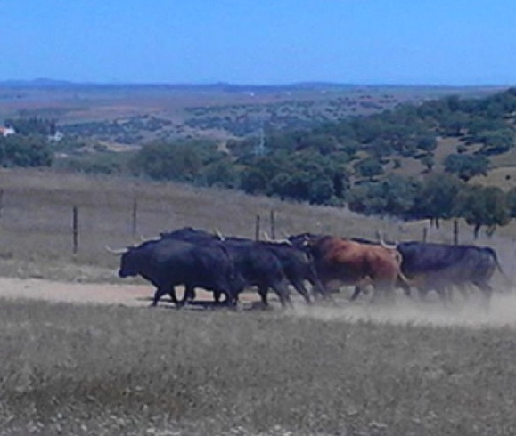 Fighting bull cattle being driven by a rider (just right of photo), on the Andalusian Ganadería Jandilla's 750 ha estate near Mérida in Extremadura